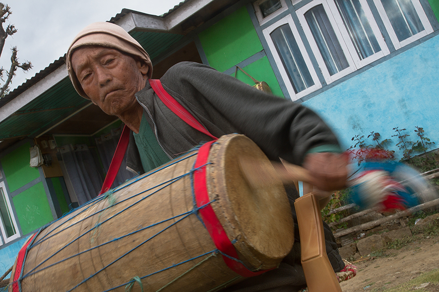 An aged man playing Chyabrung Drum, Yuksom, West Sikkim, India